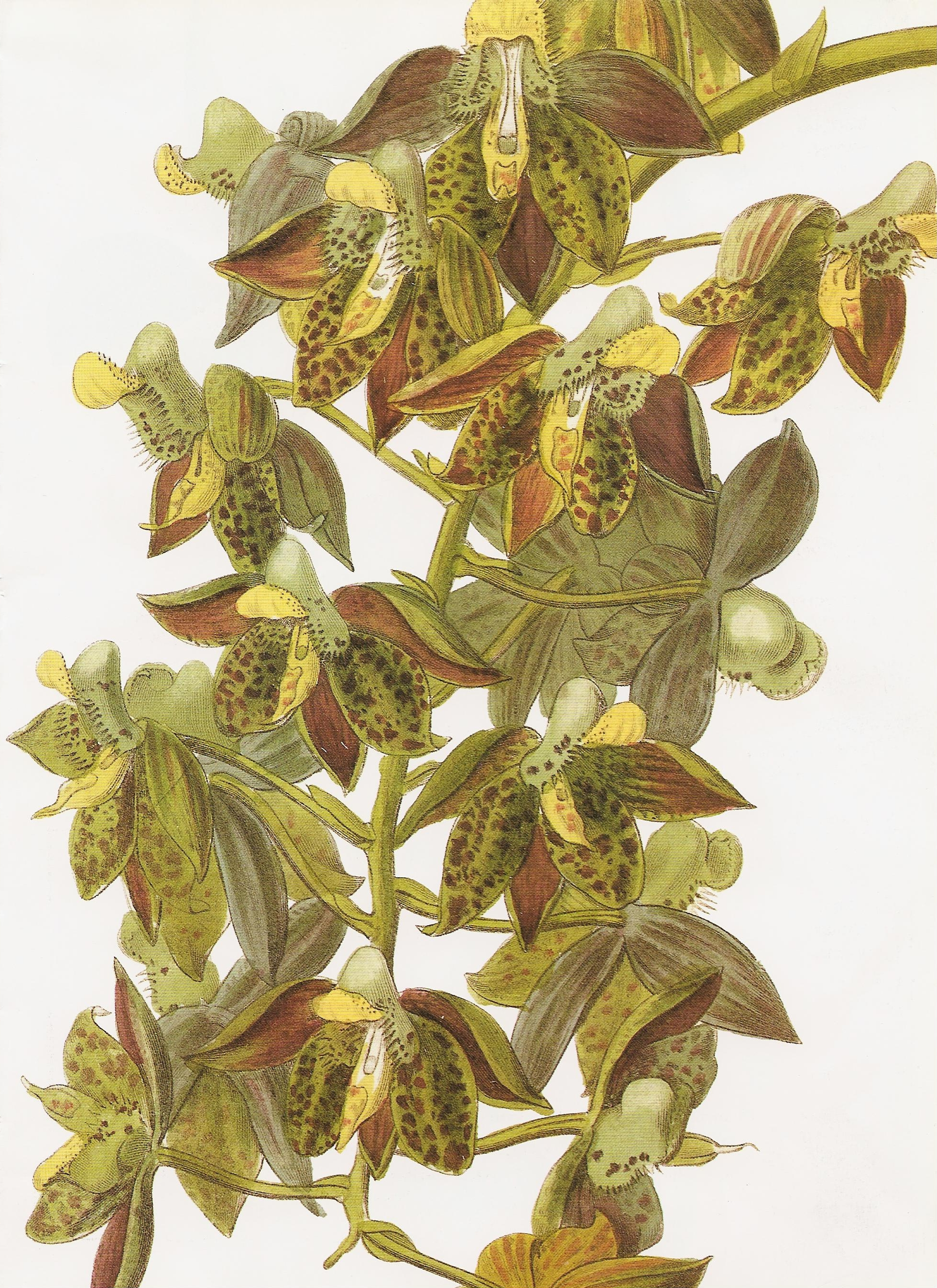 Catasetum atratum, a hand-coloured engraving after a drawing by Miss S. A. Drake (fl. 1820s-1840s), from the 24th volume of the Botanical Register (1838), edited by John Lindley. This plant was named by Lindley.